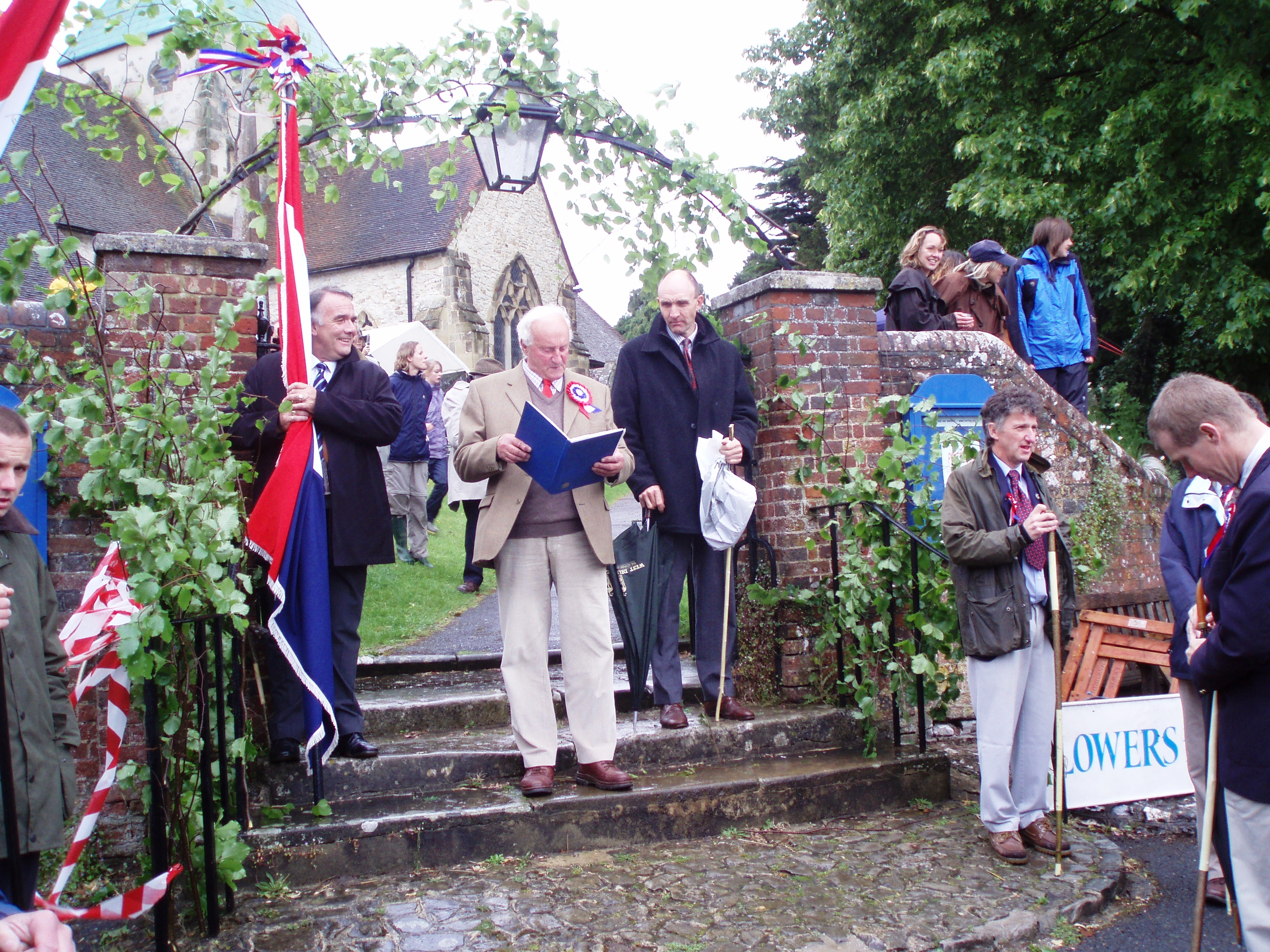 Photo taken by M.Eyre 28th May 2007